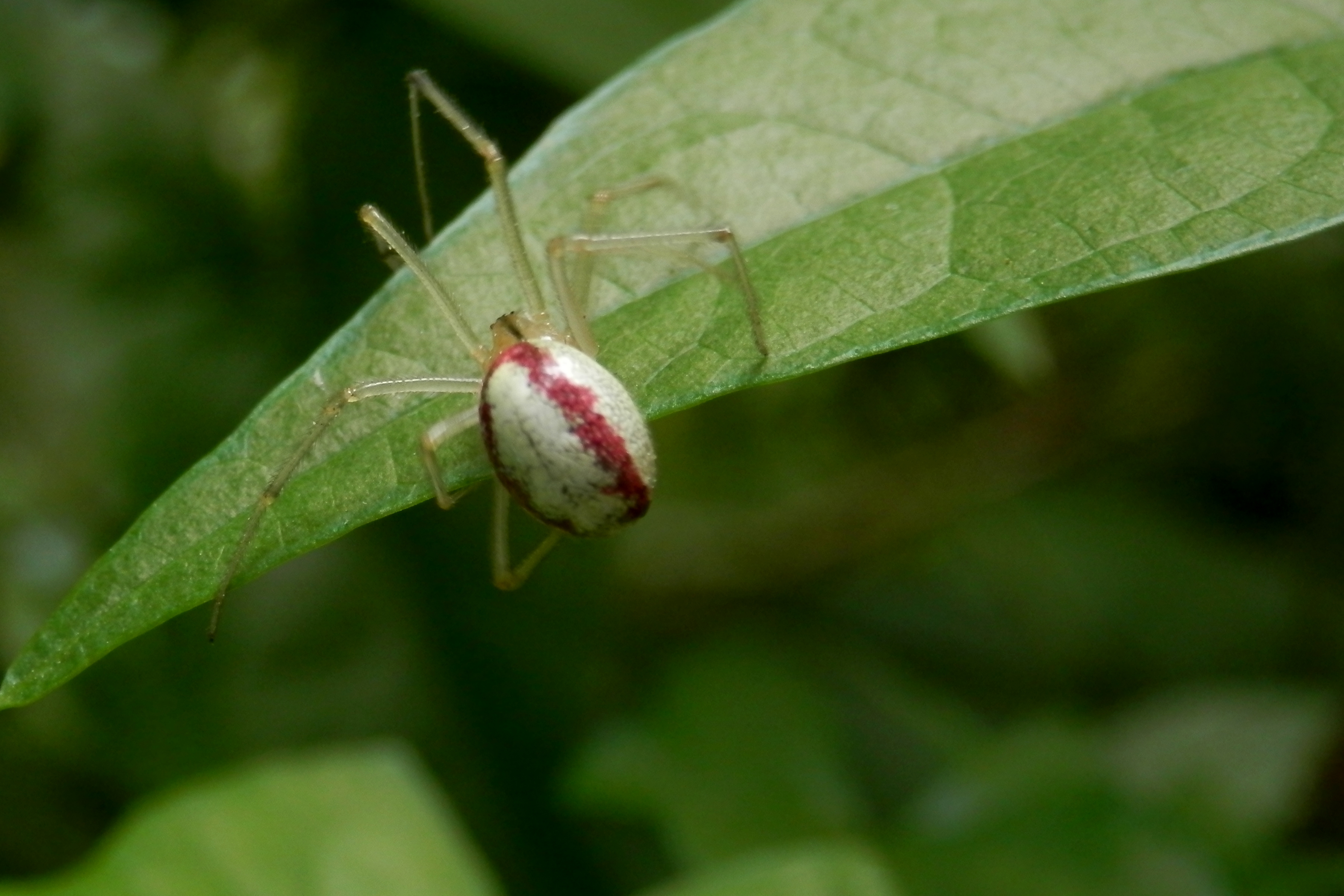 Enoplognatha ovata in Kitchener, Ontario, Canada.